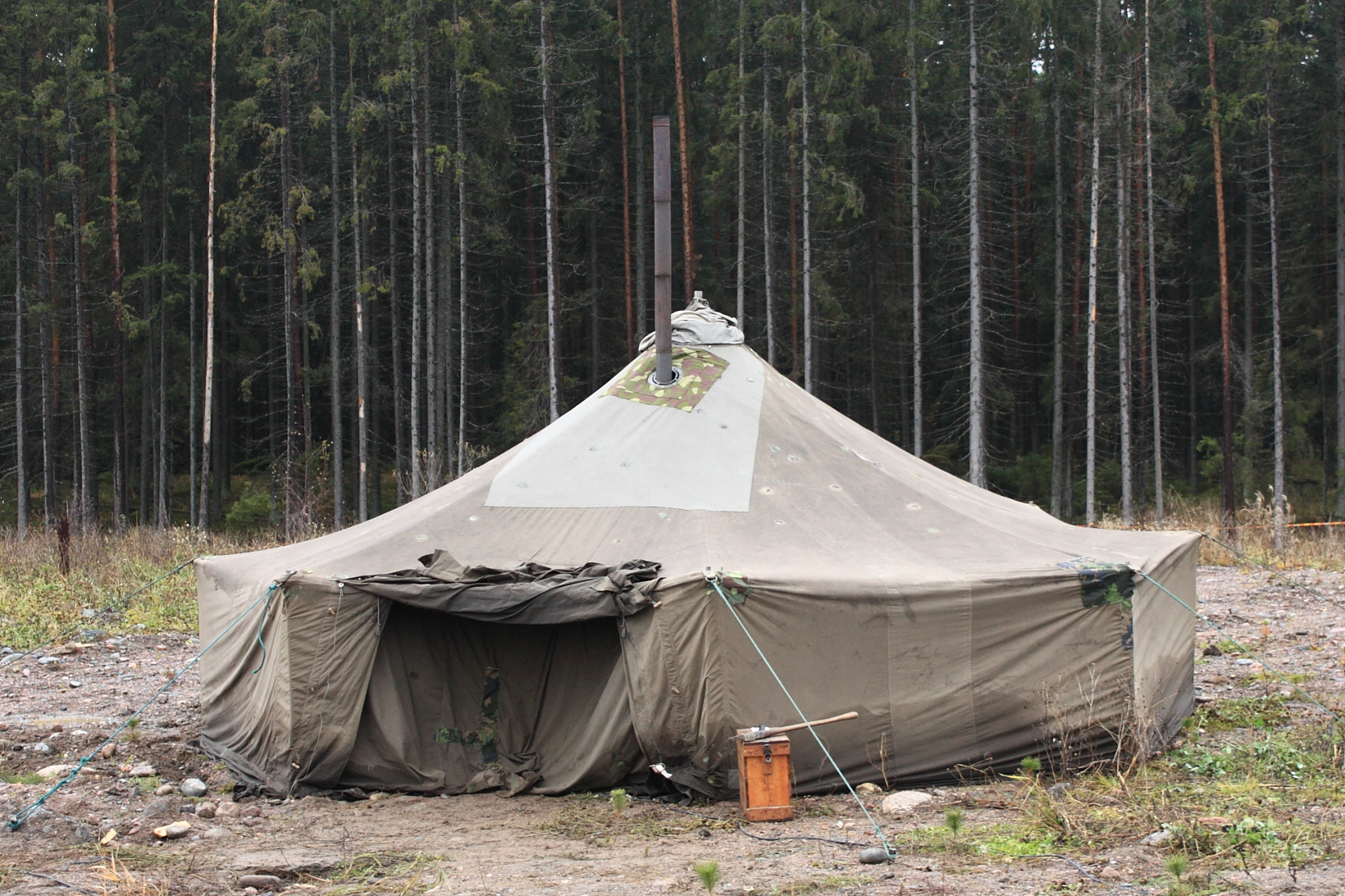 The standard tent of Finnish Defence Forces for the maximum of 18-19 solders.